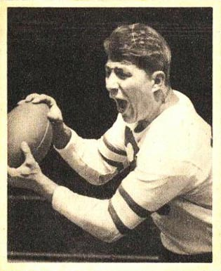 Here is a 1948 Bowman Football card of card number #10 Pete Pihos of the Philadelphia Eagles. Card is in public domain, pd-not-renewed.